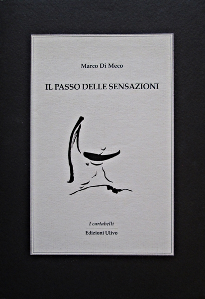 Cover of "Il Passo delle Sensazioni" a book of poetry by Marco Di Meco